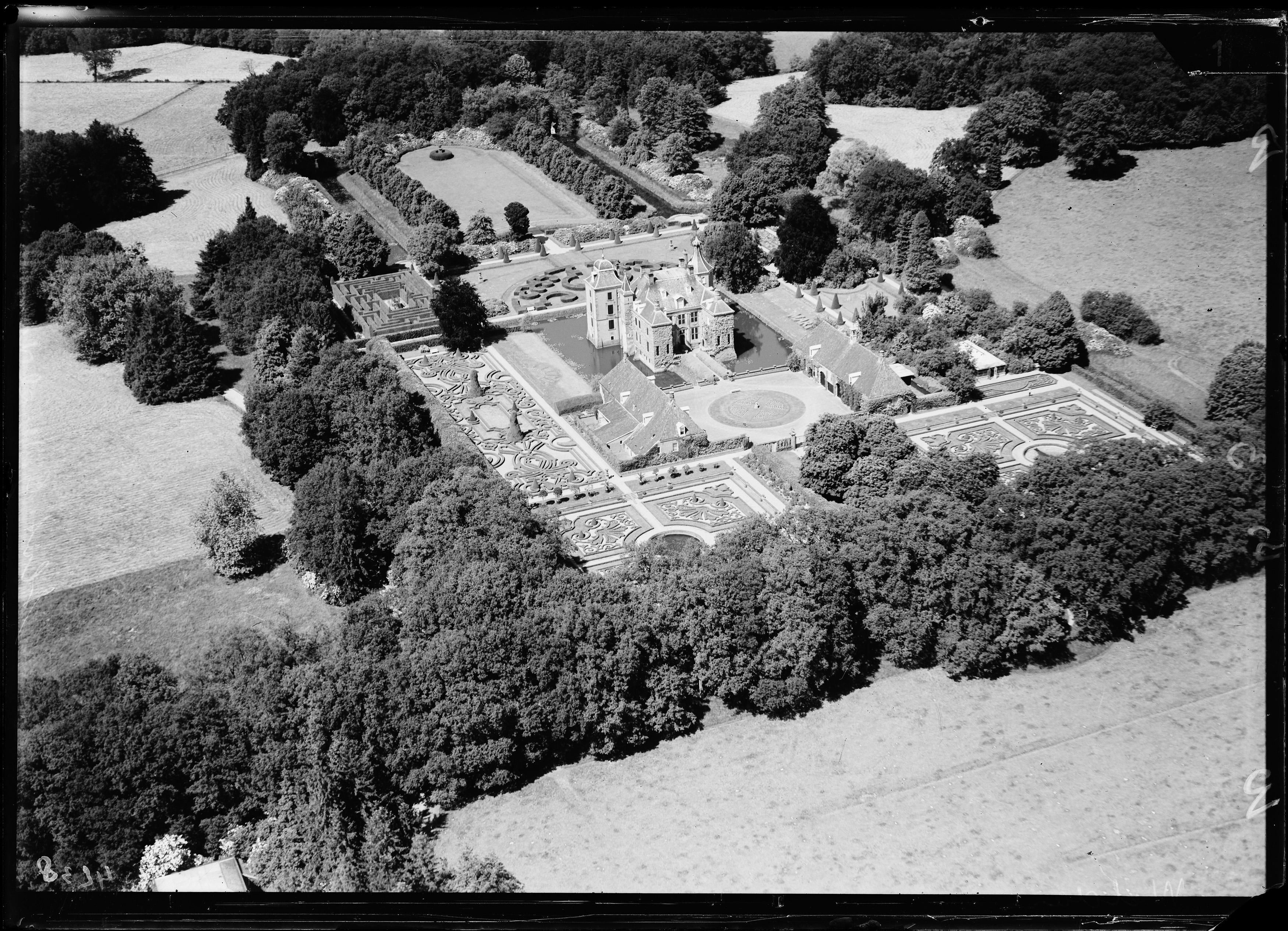 Aerial photograph of Weldam, The Netherlands